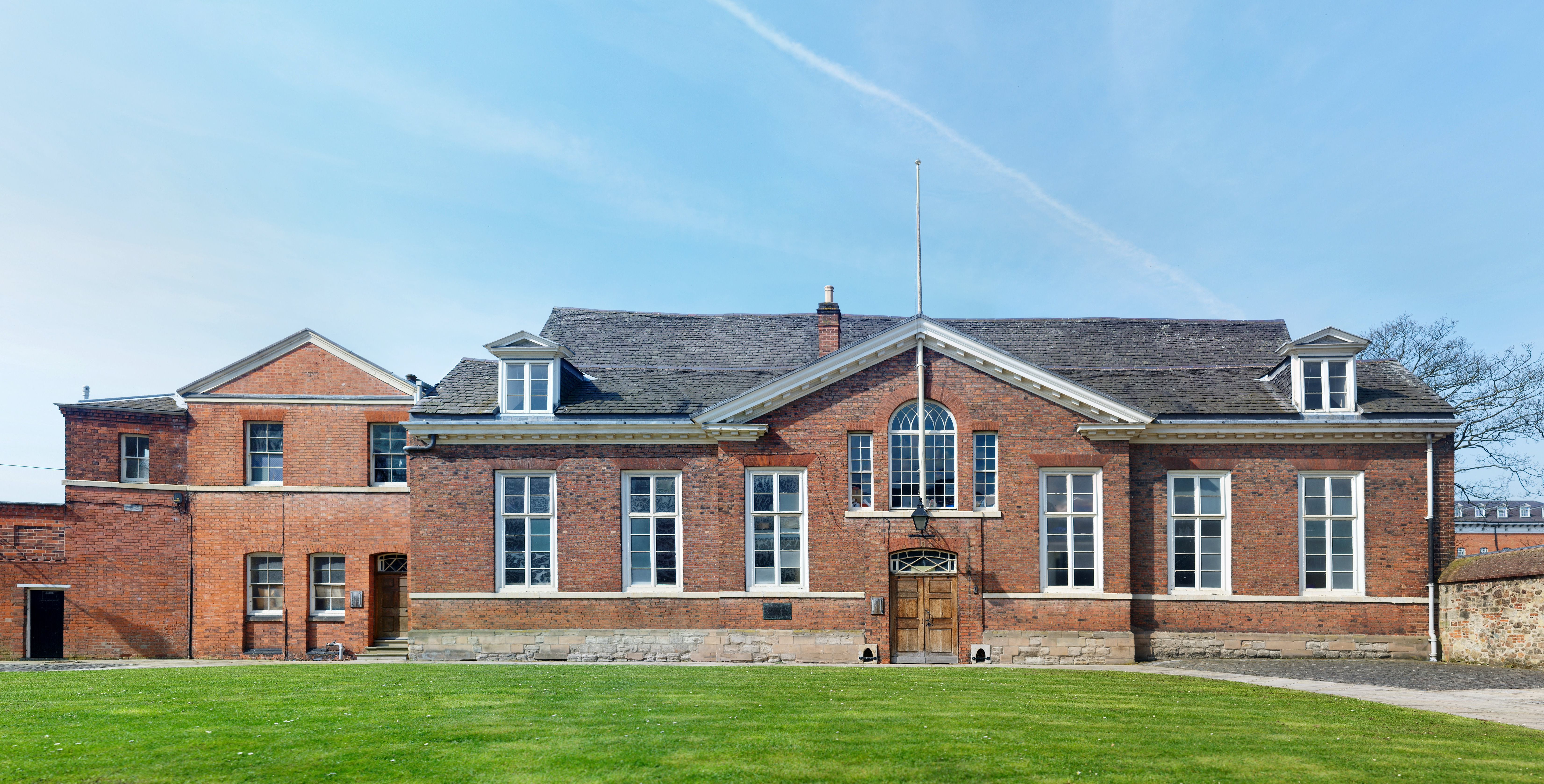 The Castle Hall in Leicester, England. The c1695 front hides a hall built in the eleventh or twelfth century. The building is Grade I listed[1]